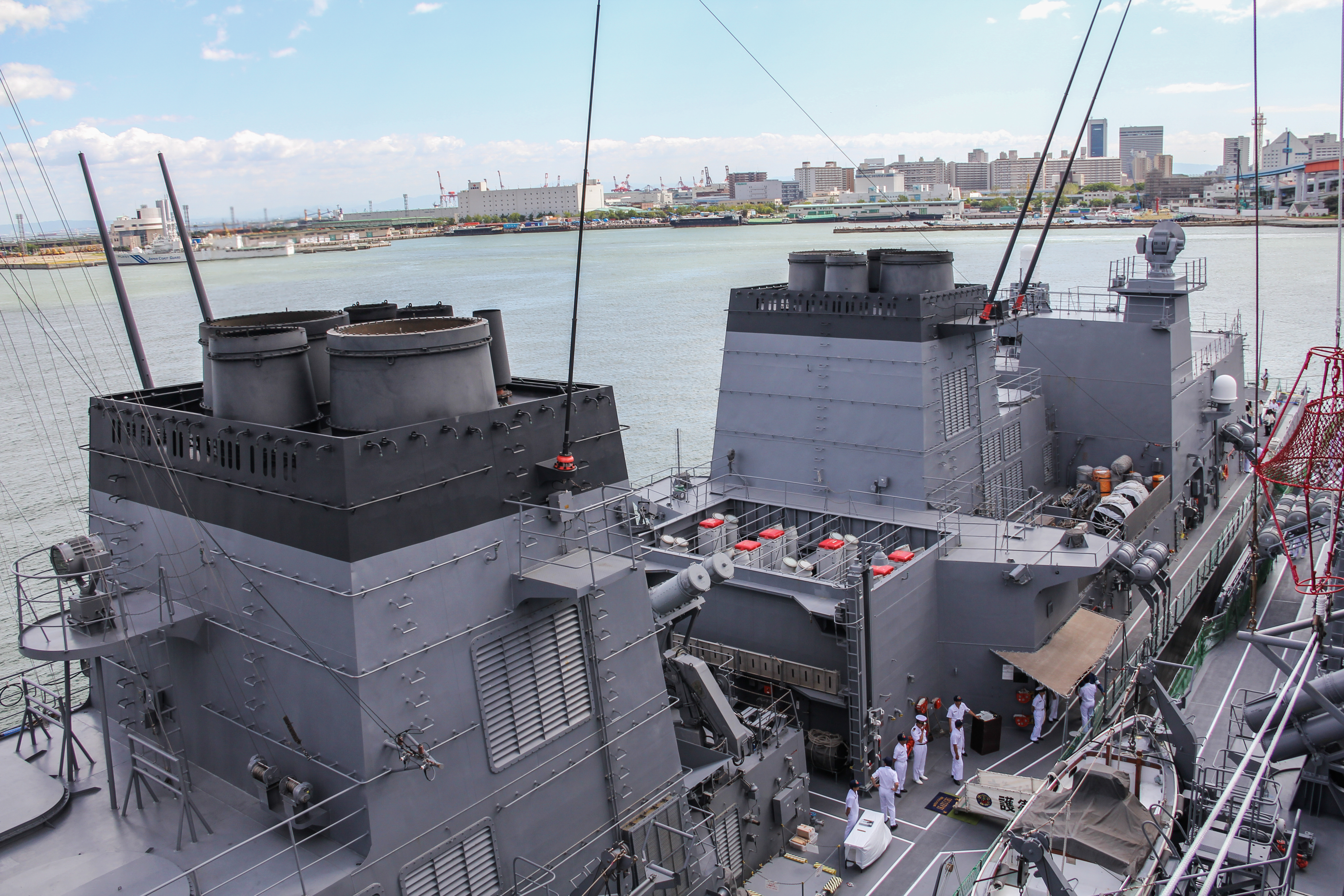 JS DD-107 Ikazuchi seen from JS DDG-1174 Kirishima (2011 September 23)